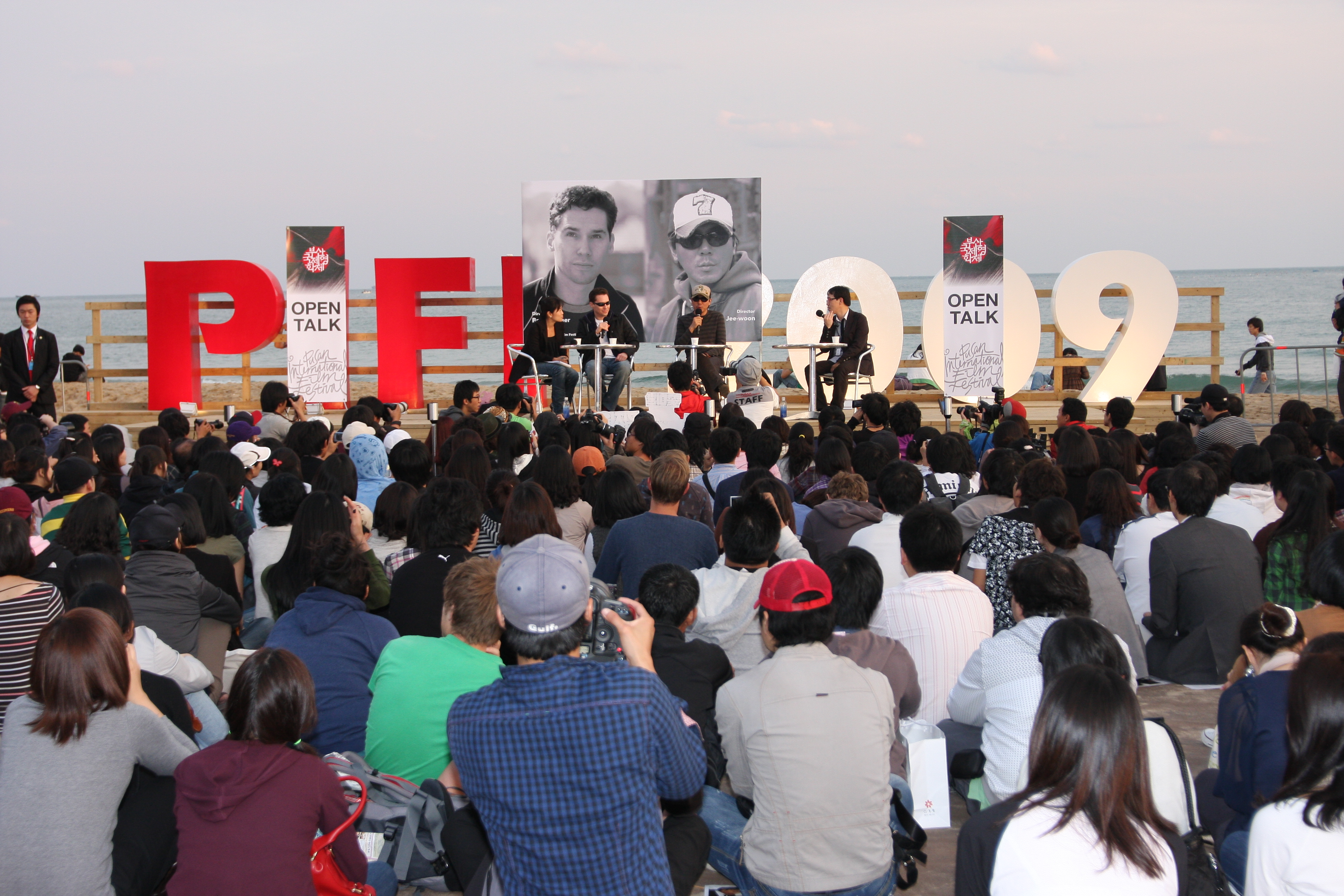 Open Talk, Director Kim Jo-woon and Brian Singer, 2010